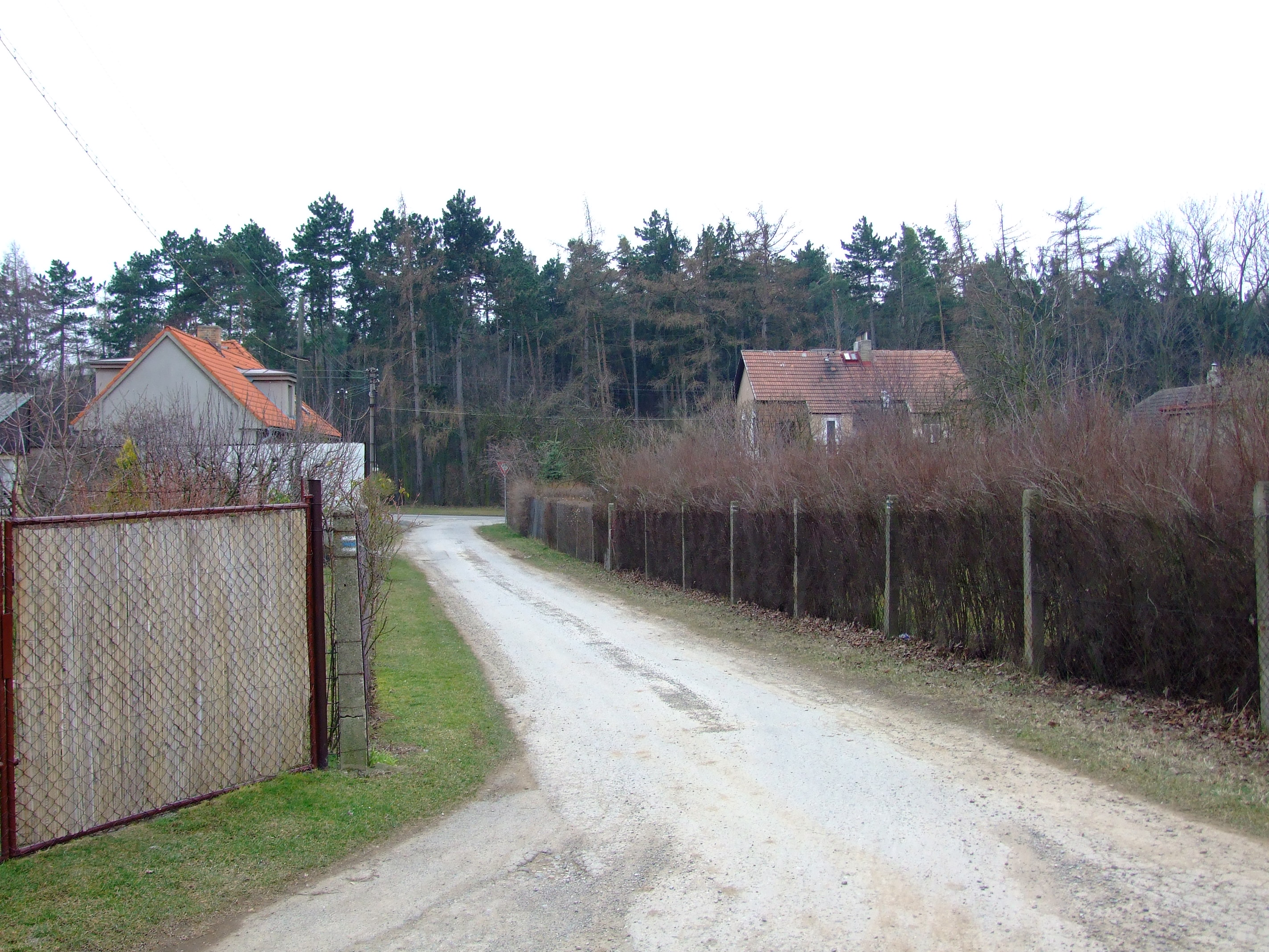 Village Třebotov near Prague